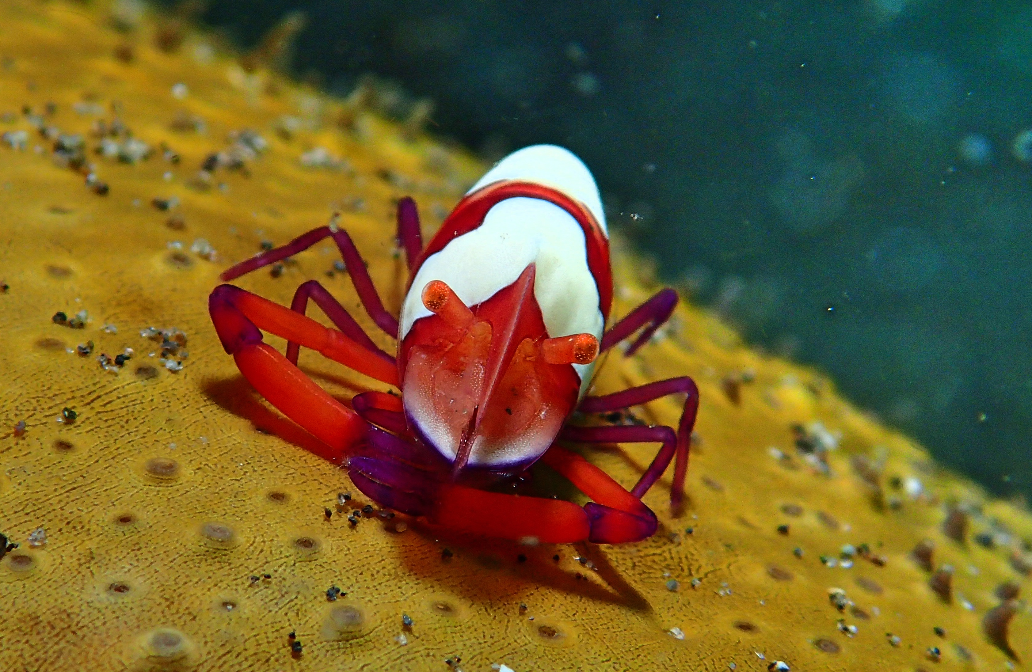 深度 10.6m；水温 28摄氏度